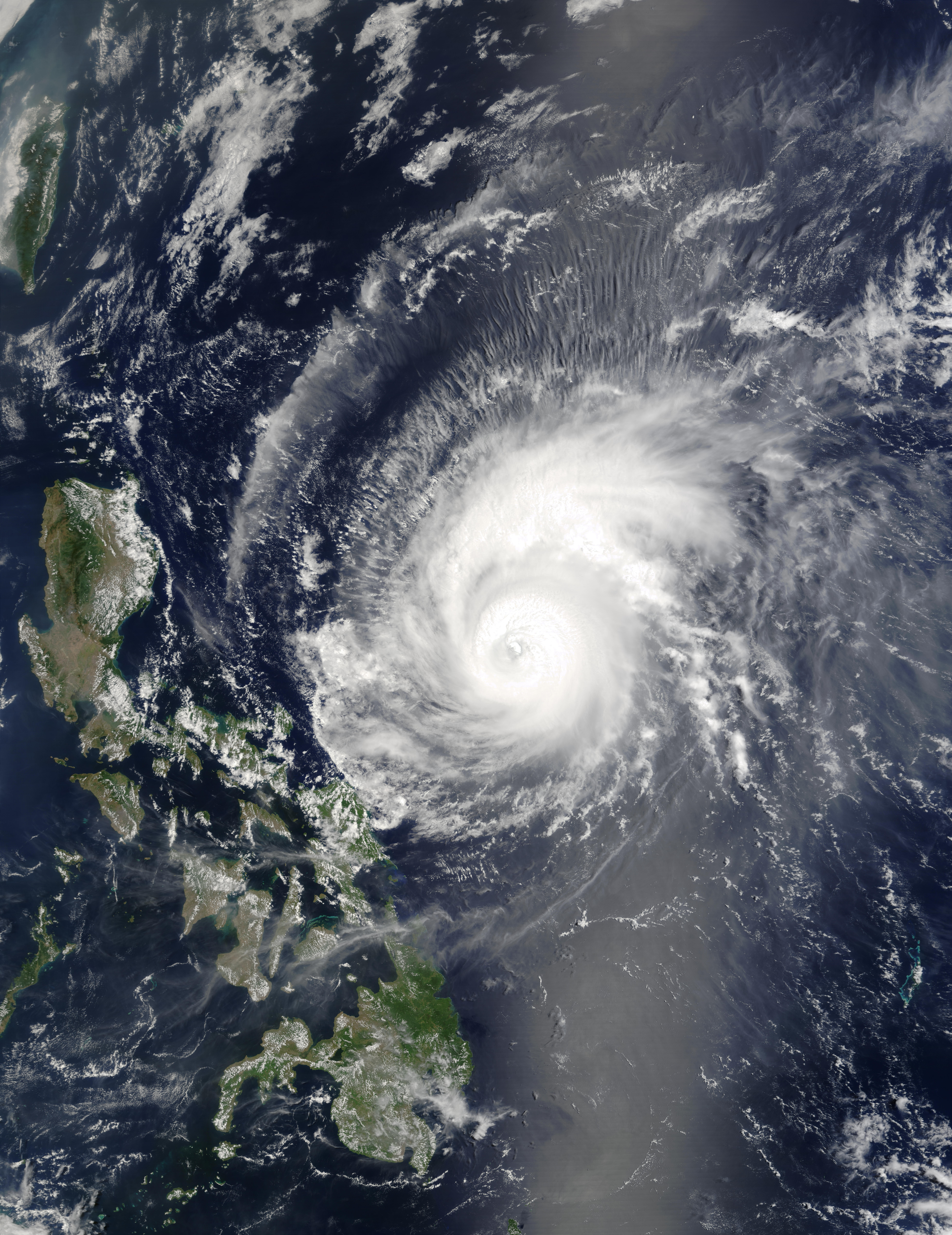 This true-color image from the Moderate Resolution Imaging Spectroradiometer (MODIS) on the Terra satellite on April 19, 2003, shows Tropical Cyclone Kujira in the Pacific Ocean off the coast of the Philippines.